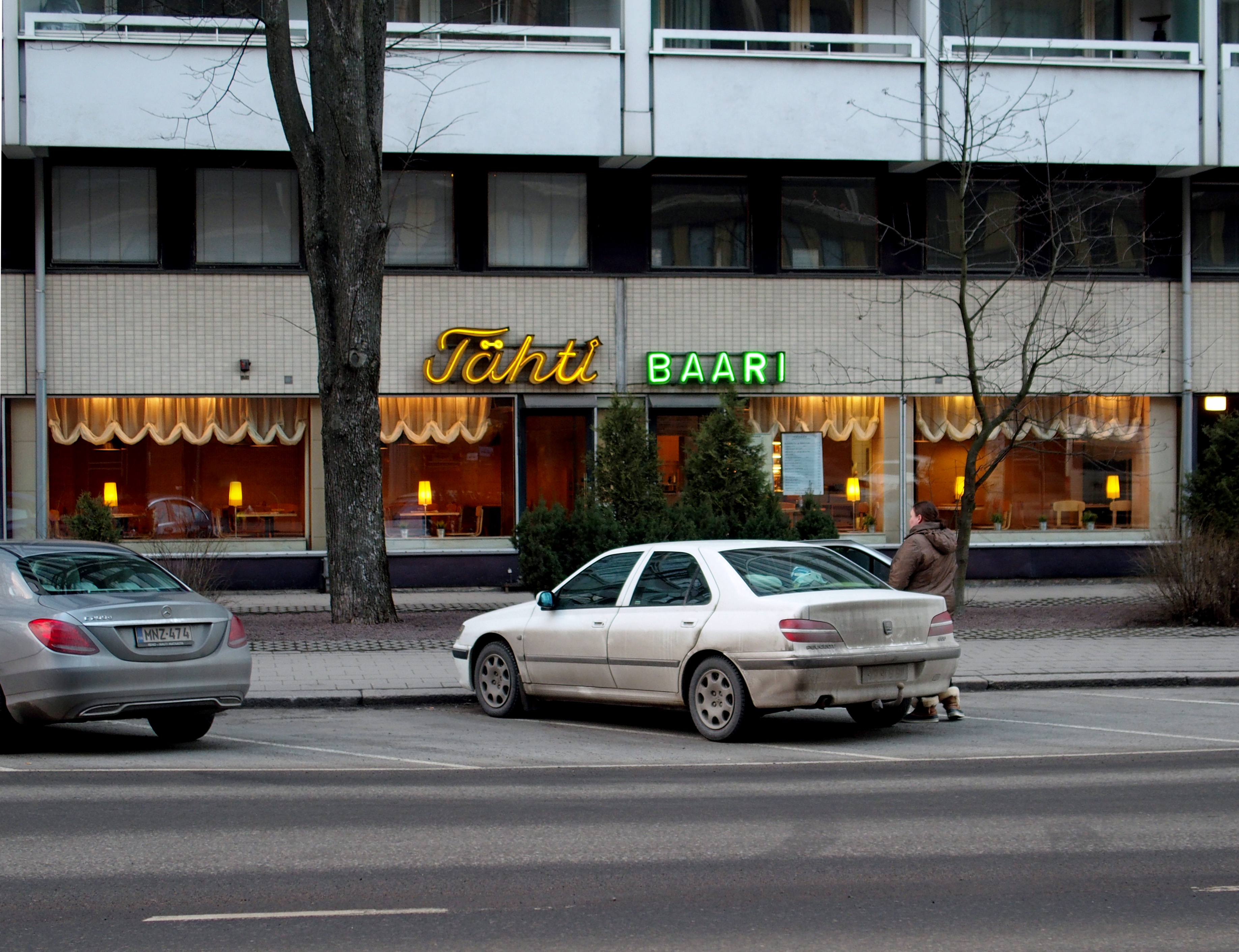 No-frills home cooking restaurant and cafe, started in 1971, address Puutarhakatu 15, Turku, Finland.